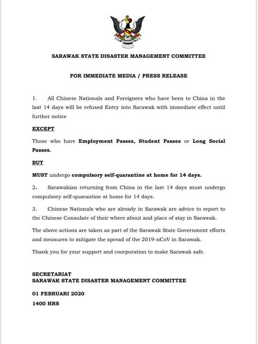 Temporary Prohibition released by the State Government of Sarawak due to the Coronavirus outbreak.